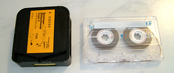 Super 8mm film cartridge. Kodak Eastman Ektschrome 7240 film. Photographed by Cybertrix 2005. Free for anyone who wants to use it.